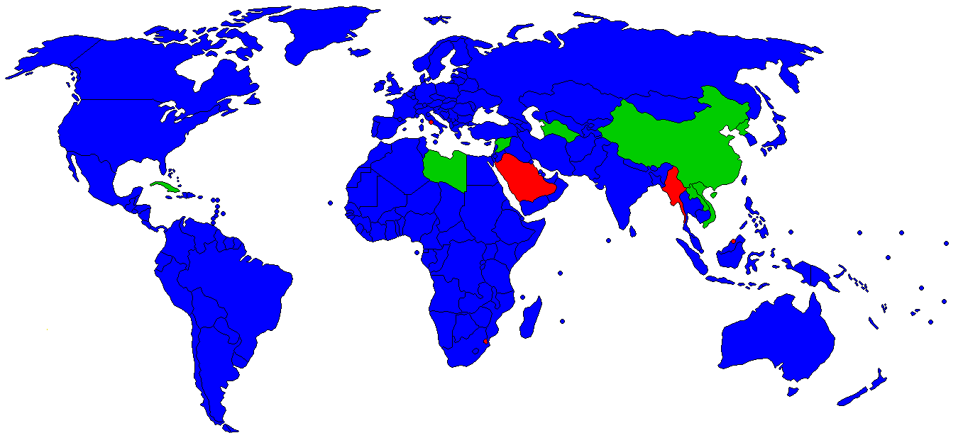 map of democracies